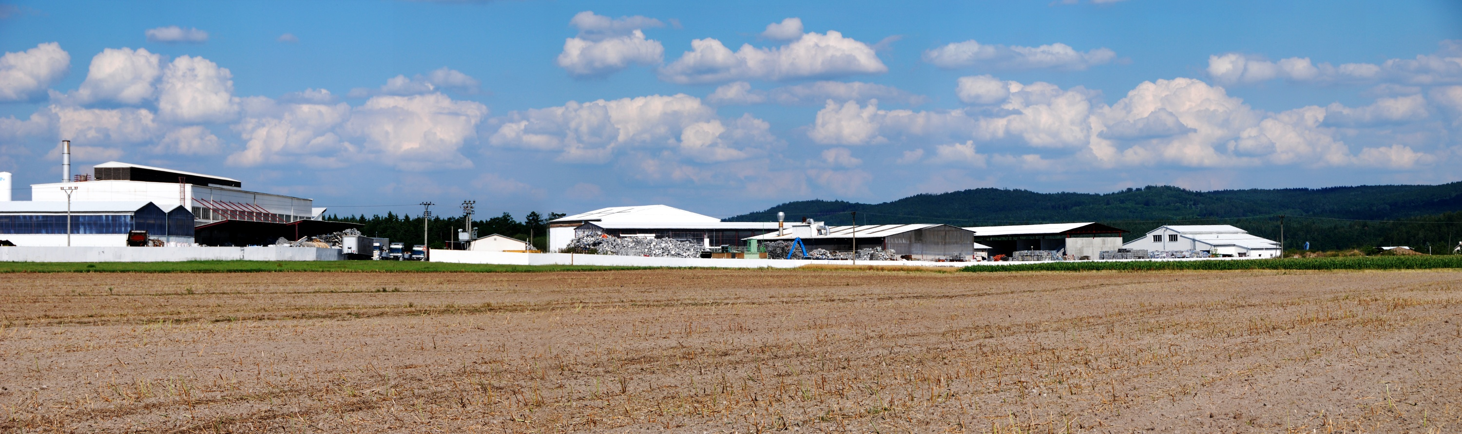 This photograph was taken within the scope of the second year of the 'Czech Municipalities Photographs' grant. Anbremetal a.s.